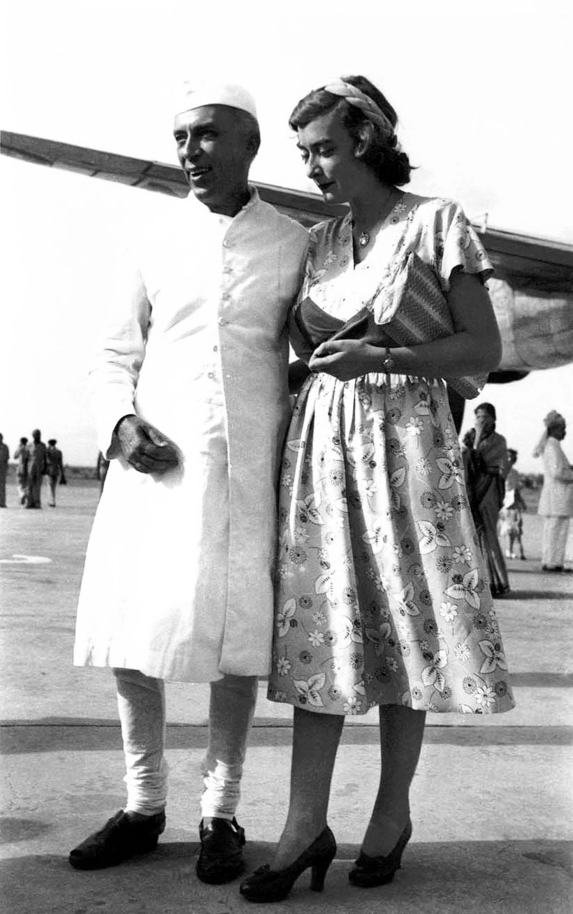 Nehru with Pamela Mountbatten as she was about to leave India in June 1948.